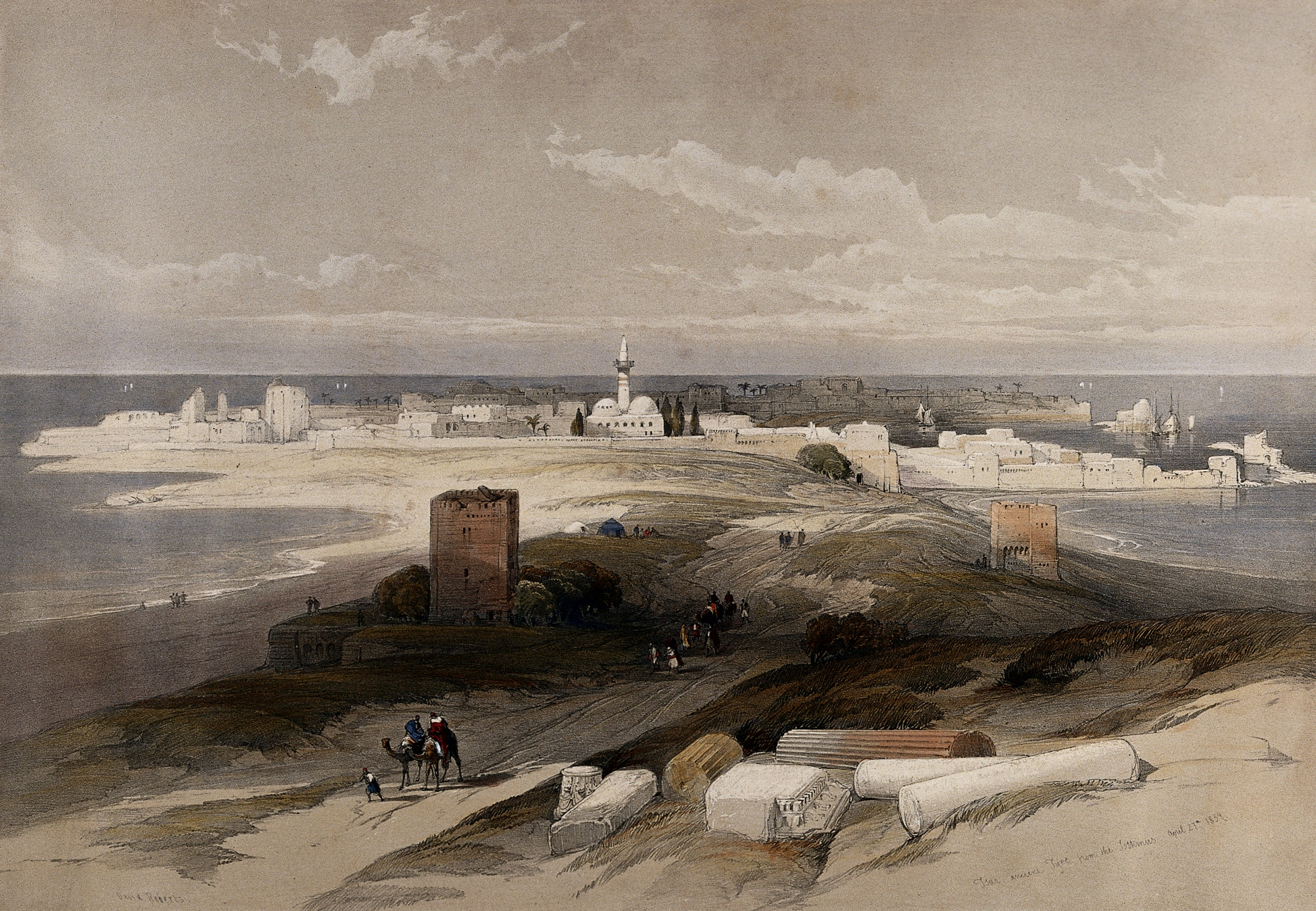 The ancient city of Tyre, taken from the isthmus. Coloured lithograph by Louis Haghe after David Roberts, 1843. Iconographic Collections Keywords: David Roberts; Louis Haghe